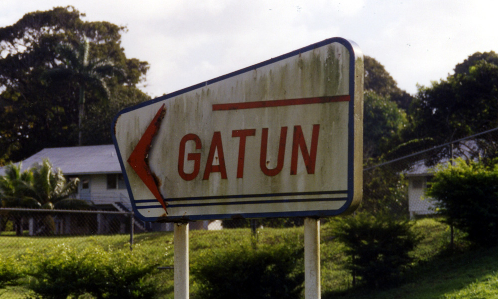 Canal Zone style sign at the entrance to Gatun, on Jadwin Road (Jan 1999).